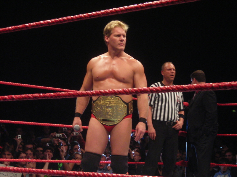 World Heavyweight Champion Chris Jericho in Milan,Italy